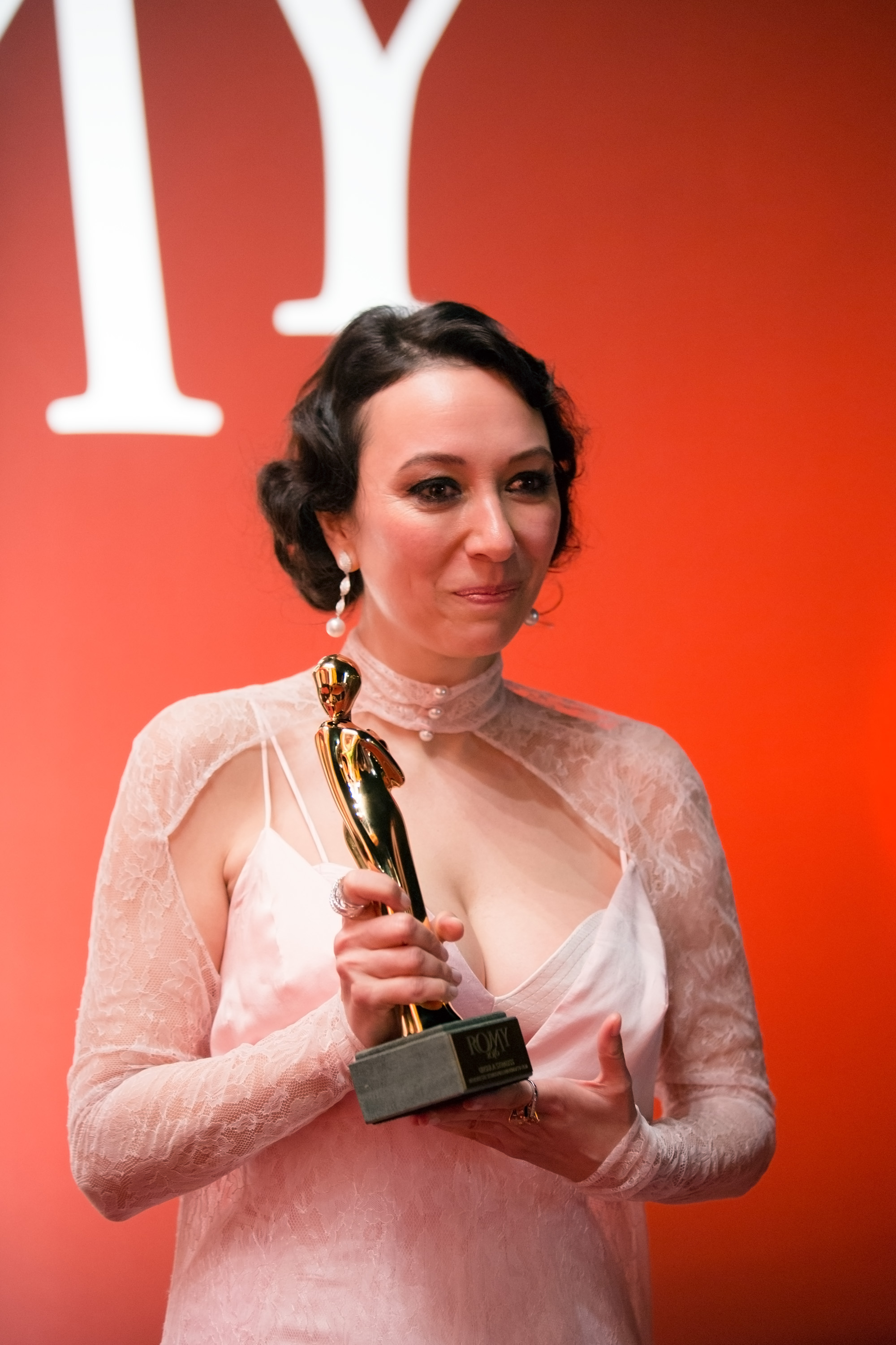 Ursula Strauss on the red carpet of the Romy TV awards 2016 at Hofburg Palace in Vienna, Austria.